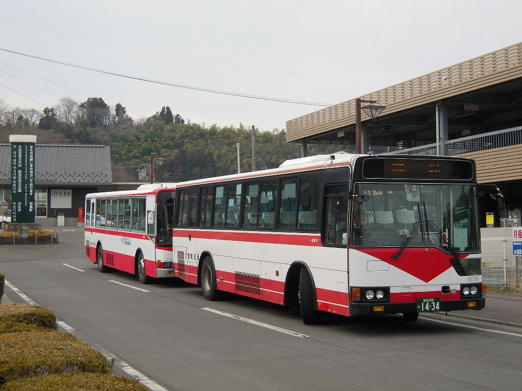 Miyagi kotsu Extra bus (the Great East Japan Earthquake,Matsushima stn.-Kashimadai and Matsushima stn.- Matsuyamamachi)